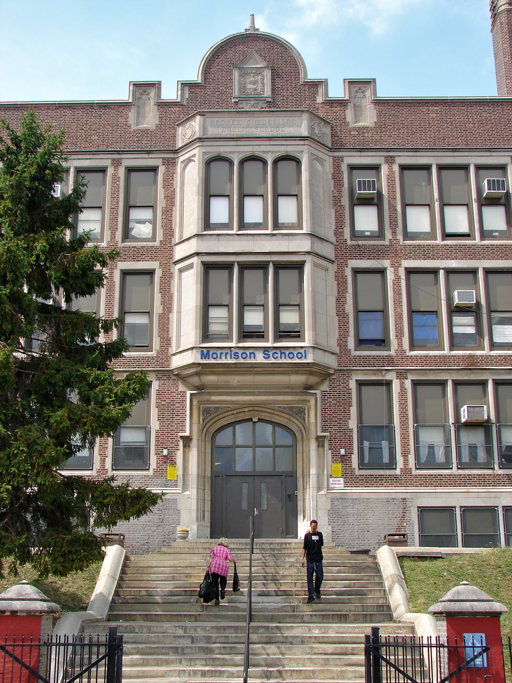 Andrew J. Morrison School in Philadelphia on the NRHP since November 18, 1988. At 300 Duncannon St. in the North Philly neighborhood of Olney